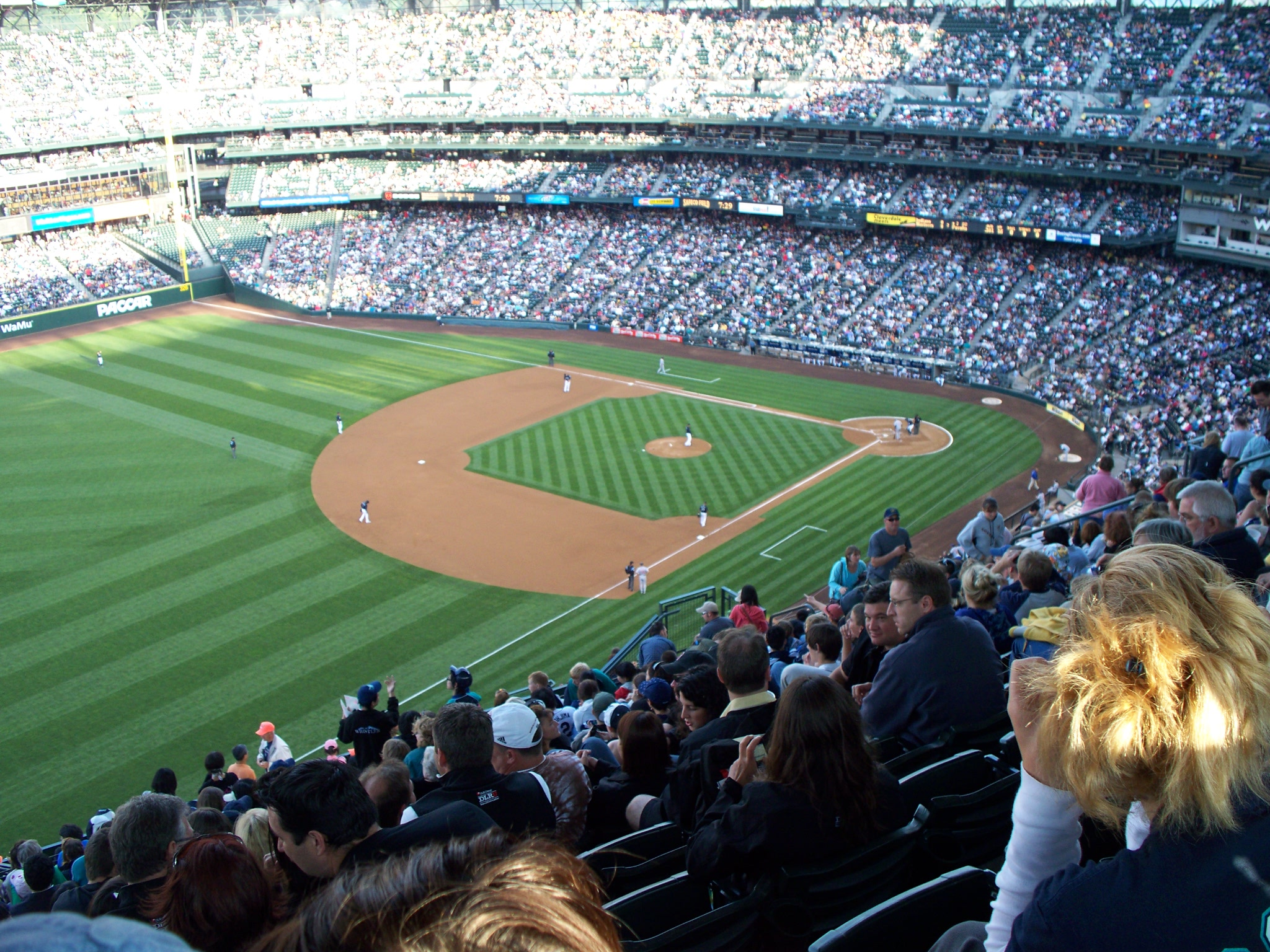 Description View from the top row of Safeco Field Date7/19/2008SourceI created this work entirely by myself.AuthorTriviaKing (talk)DWS 06:11, 21 July 2008 . . TriviaKing . . 2,048×1,536 (1.04 MB) View from the top row of Safeco Field